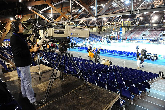 Camera in a Pro A match